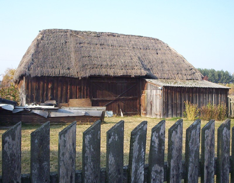 Wooden barn in Bartoszówka, Western Masovia, Poland.